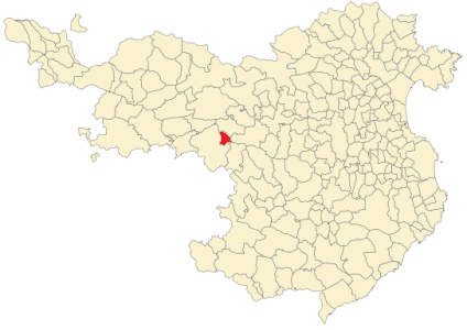 Las presas